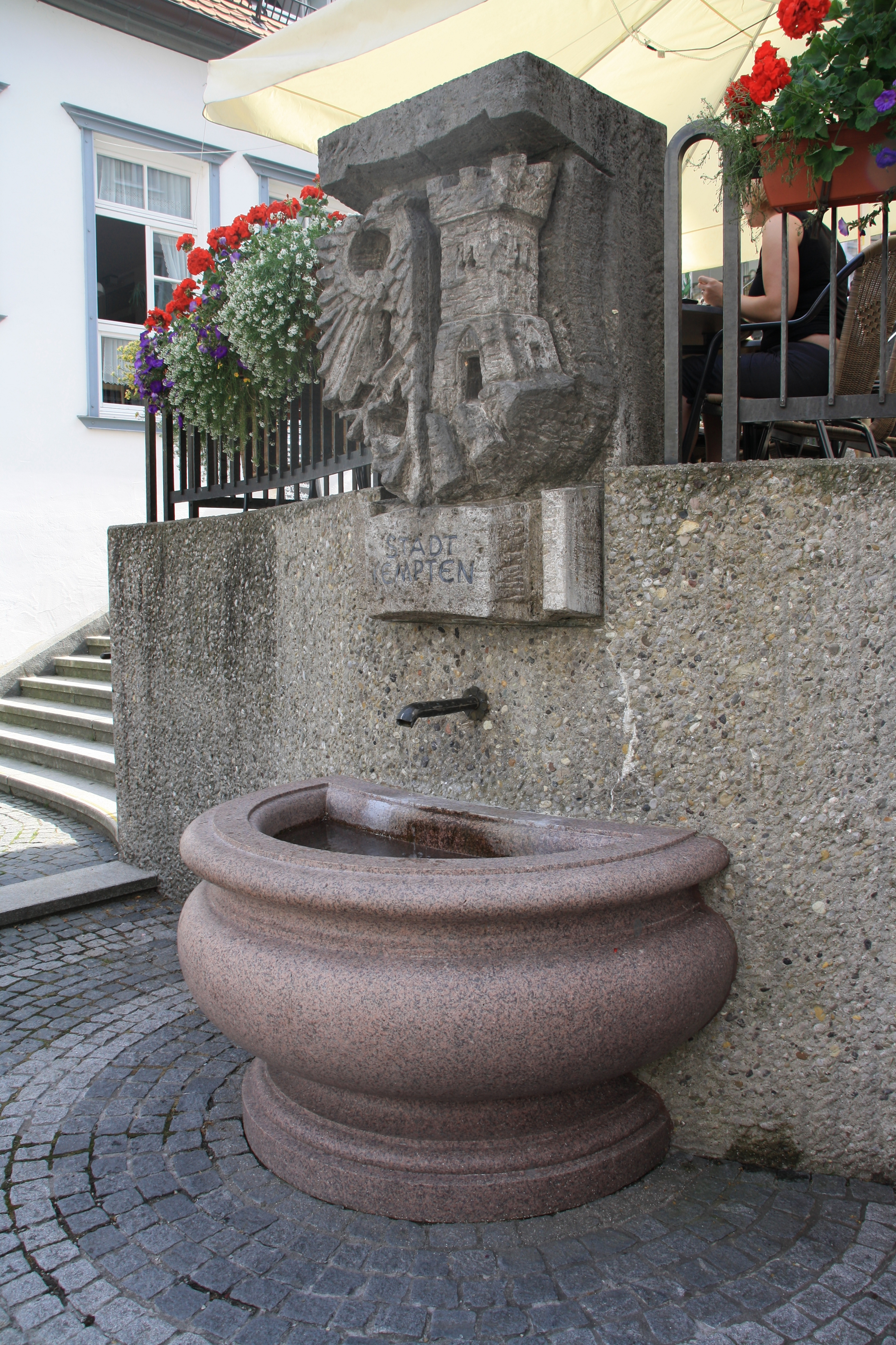 Well under the "Freitreppe" in Kempten.